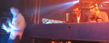 Copied from Image:Underworld tour1s.jpg Underworld live at 013 Club, Tilburg, Netherlands on 9th November 2005